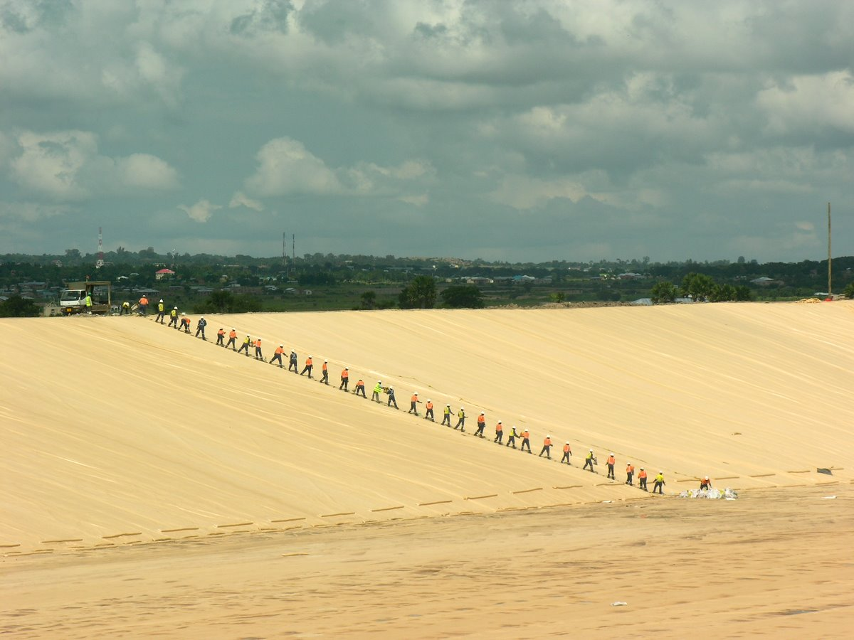 Buzwagi Goldmine, Kahama, Tanzania